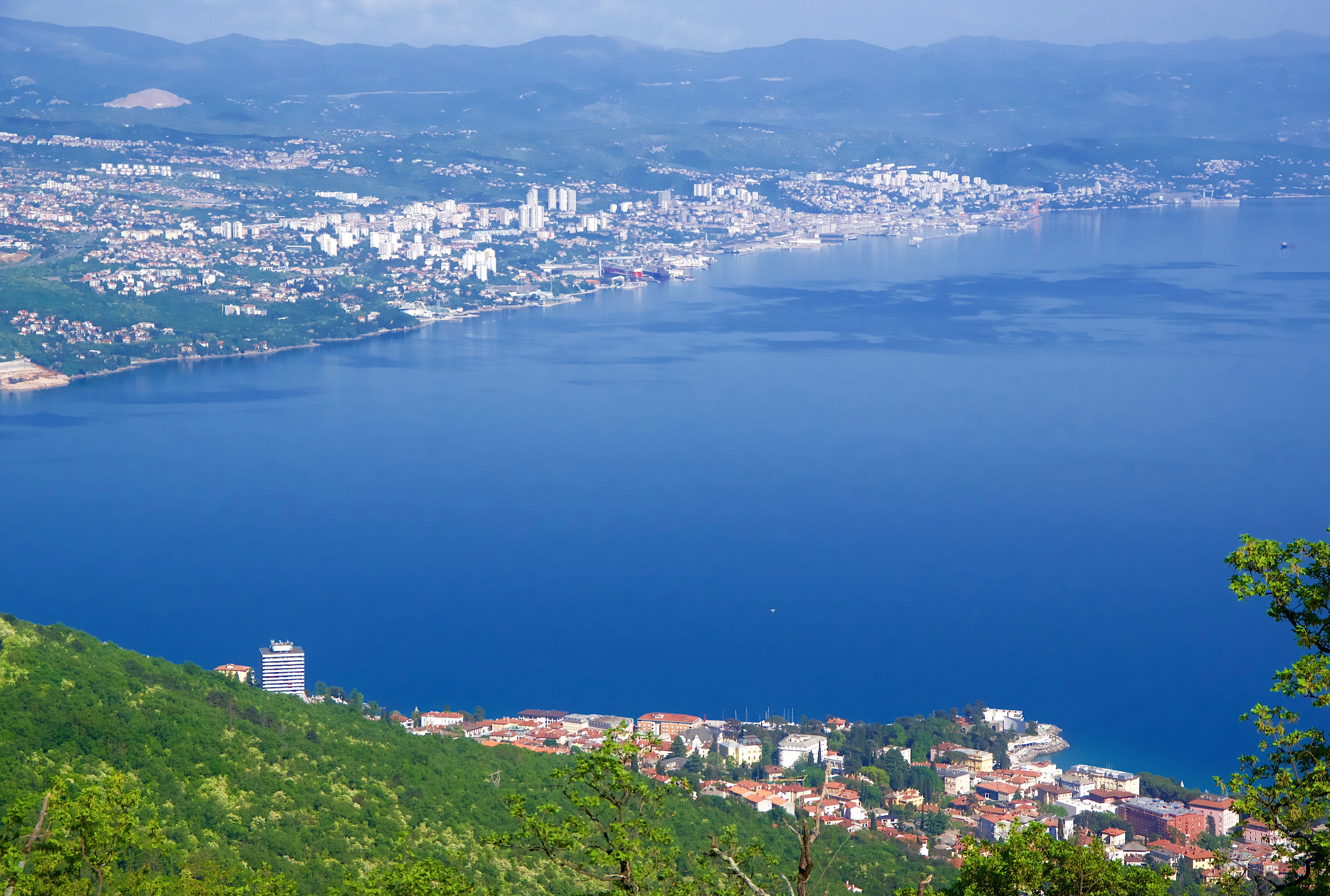 Rijeka seen from Veprinac